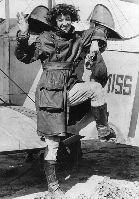 Photo donated by Karsten Smedal and available as a public domain image.